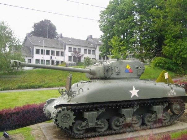 Photo of a 7th Armored Division tank in Vielsalm.